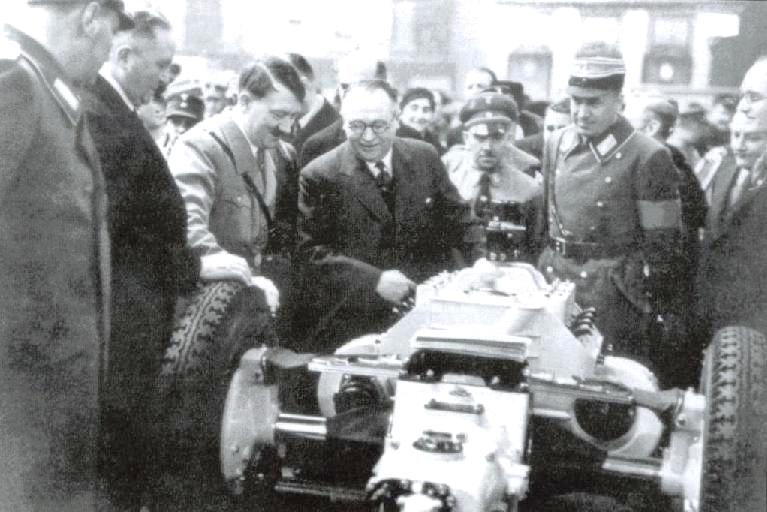 Hans Ledwinka showing the engine and transmission of Tatra T77 to Adolf Hitler in Berlin Motor show 8 March 1934.